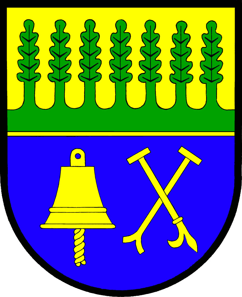 Coat of arms of the municipality Siebeneichen in Schleswig-Holstein, Germany.